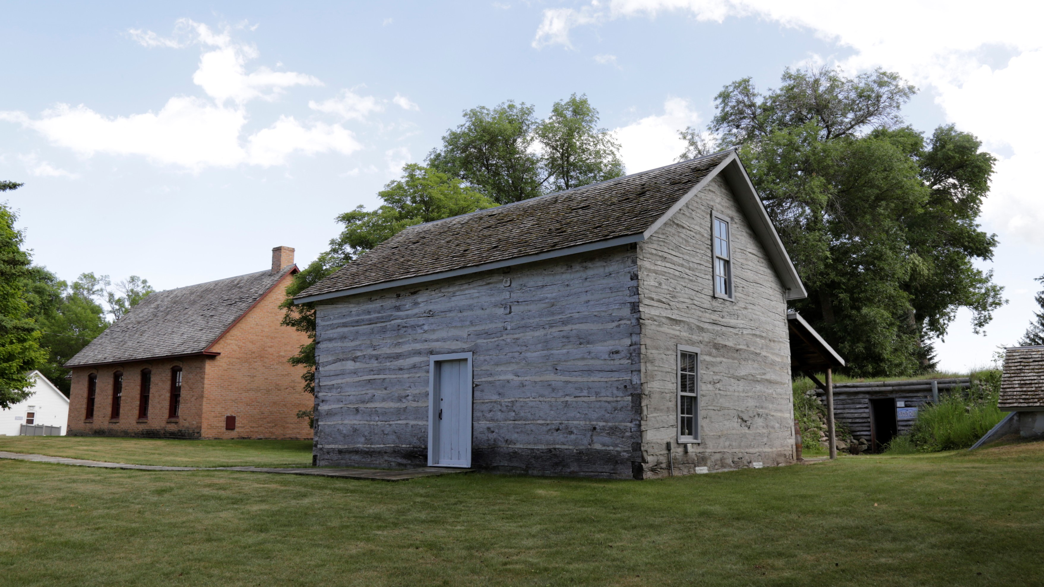 Evansville Historical Foundation - Historical and replica buildings, including two 19th-century houses, a country schoolhouse, 1892 log cabin, a sod house, pioneer church, and a town hall, with some indoor exhibits and a research library.